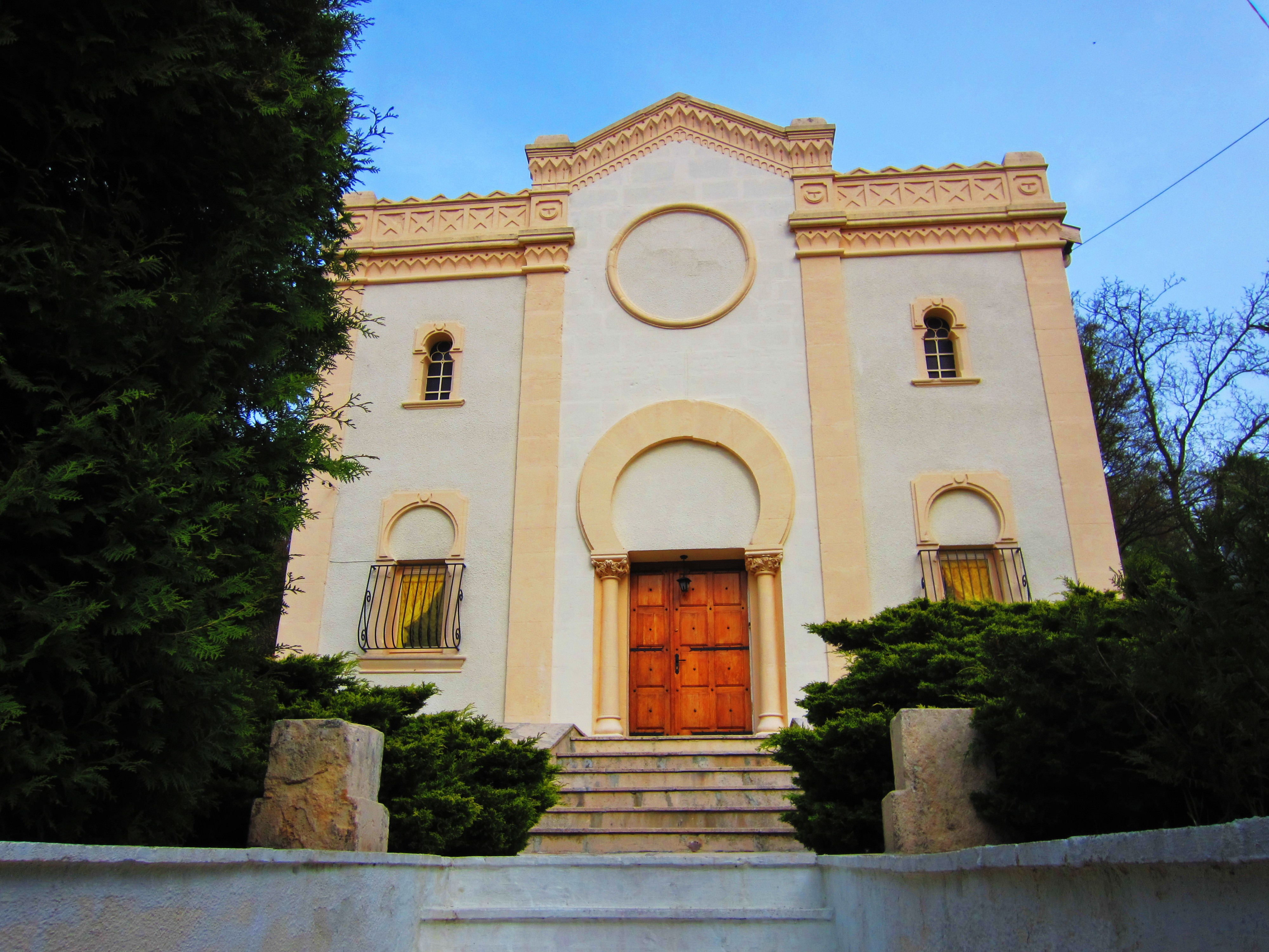 Synagogue St Mihiel